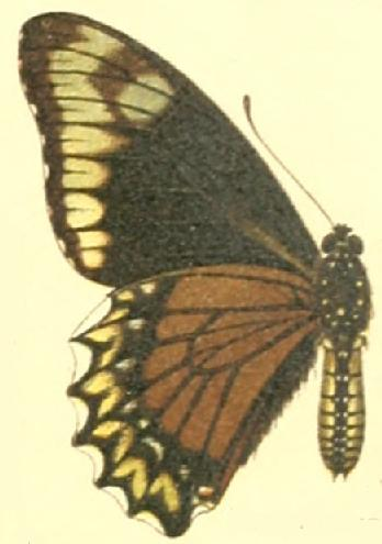 Madyes Swallowtail, male, underwing